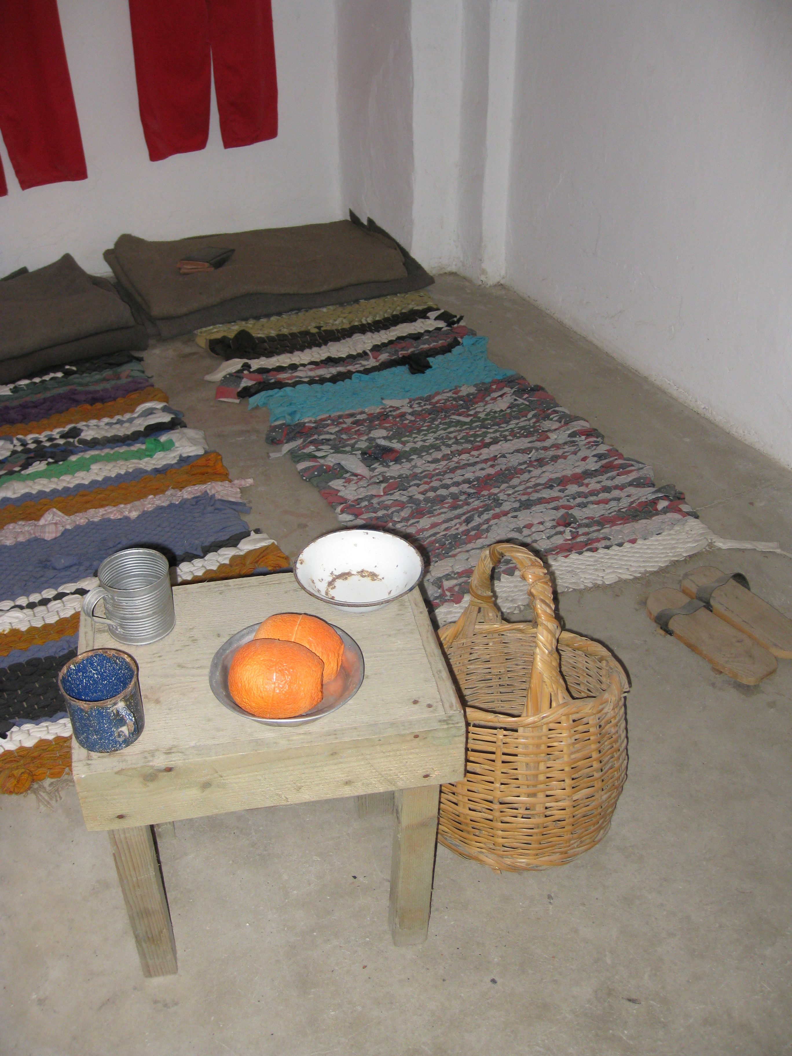 Museum of the Underground Prisoners מוזיאון אסירי המחתרות